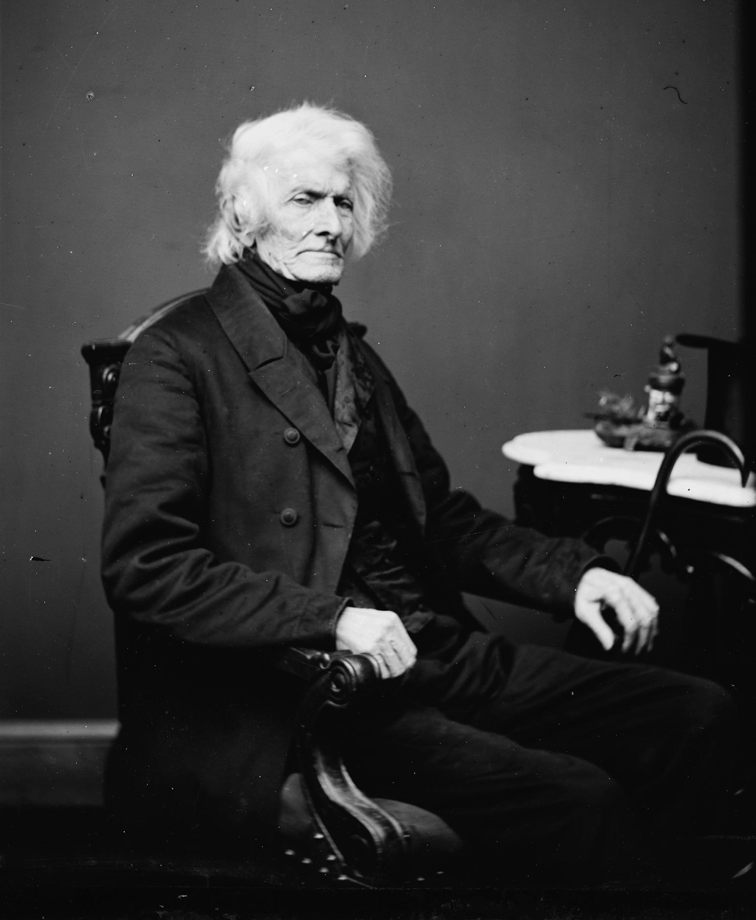 William Wilkins (United States Senator). Library of Congress description: "Wilkins, Judge Wm.".